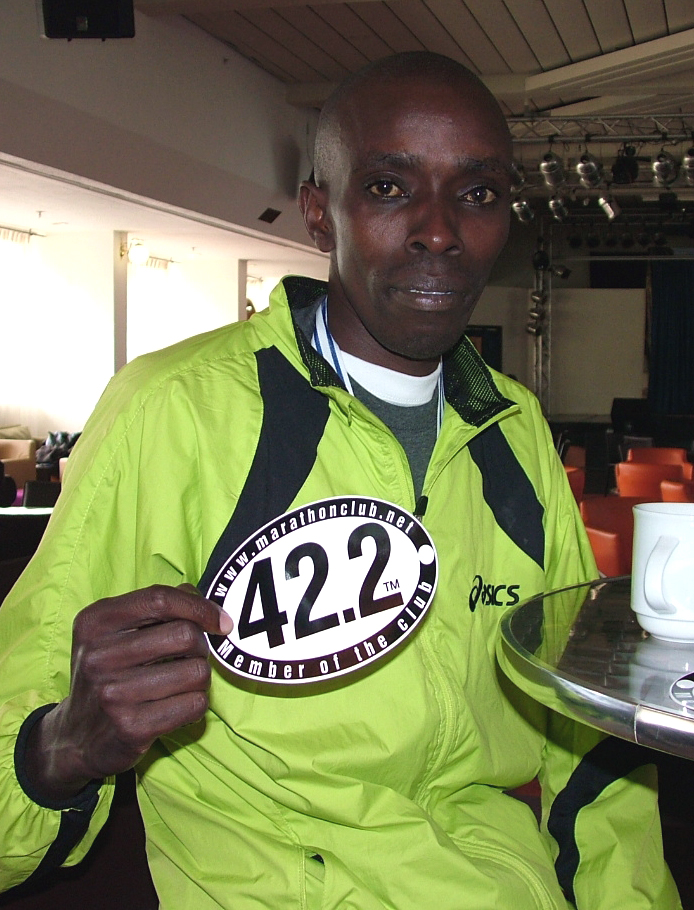 Leonard Mucheru Maina, winner of 2008 Tiberias Marathon